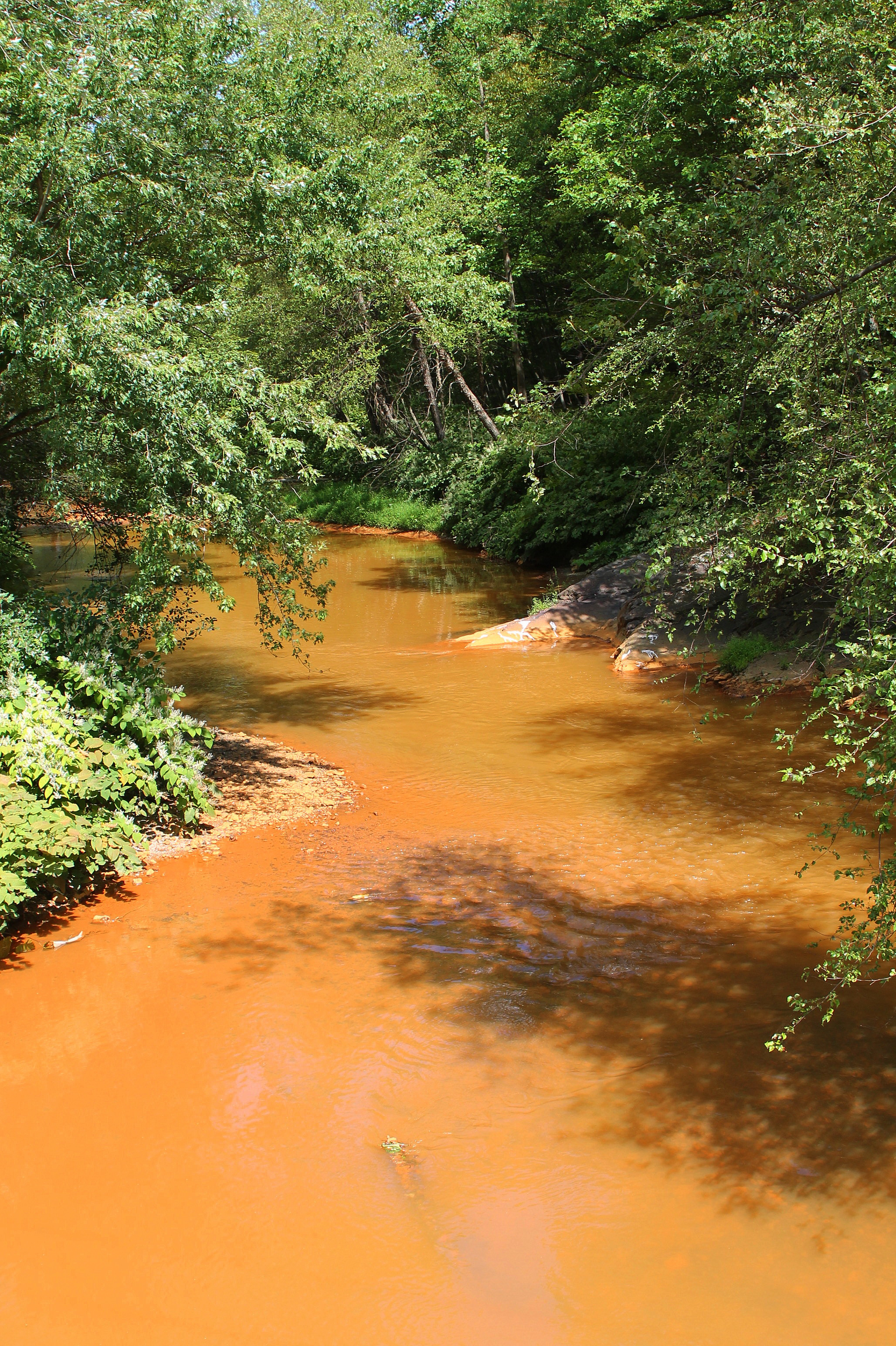 Shamokin Creek looking downstream at Millers Run